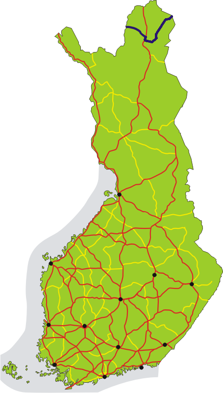 Map of the main road 92 in Finland, shown in dark blue. The other 1st class main roads (numbers 1–29) are red, 2nd class main roads (numbers 40–98) yellow. Black dots show the 12 biggest urban areas.